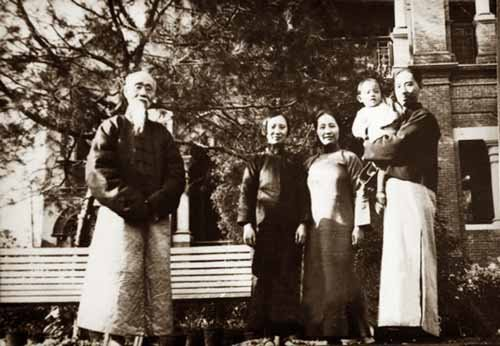 Zhao Fengchang and Yang Xingfo